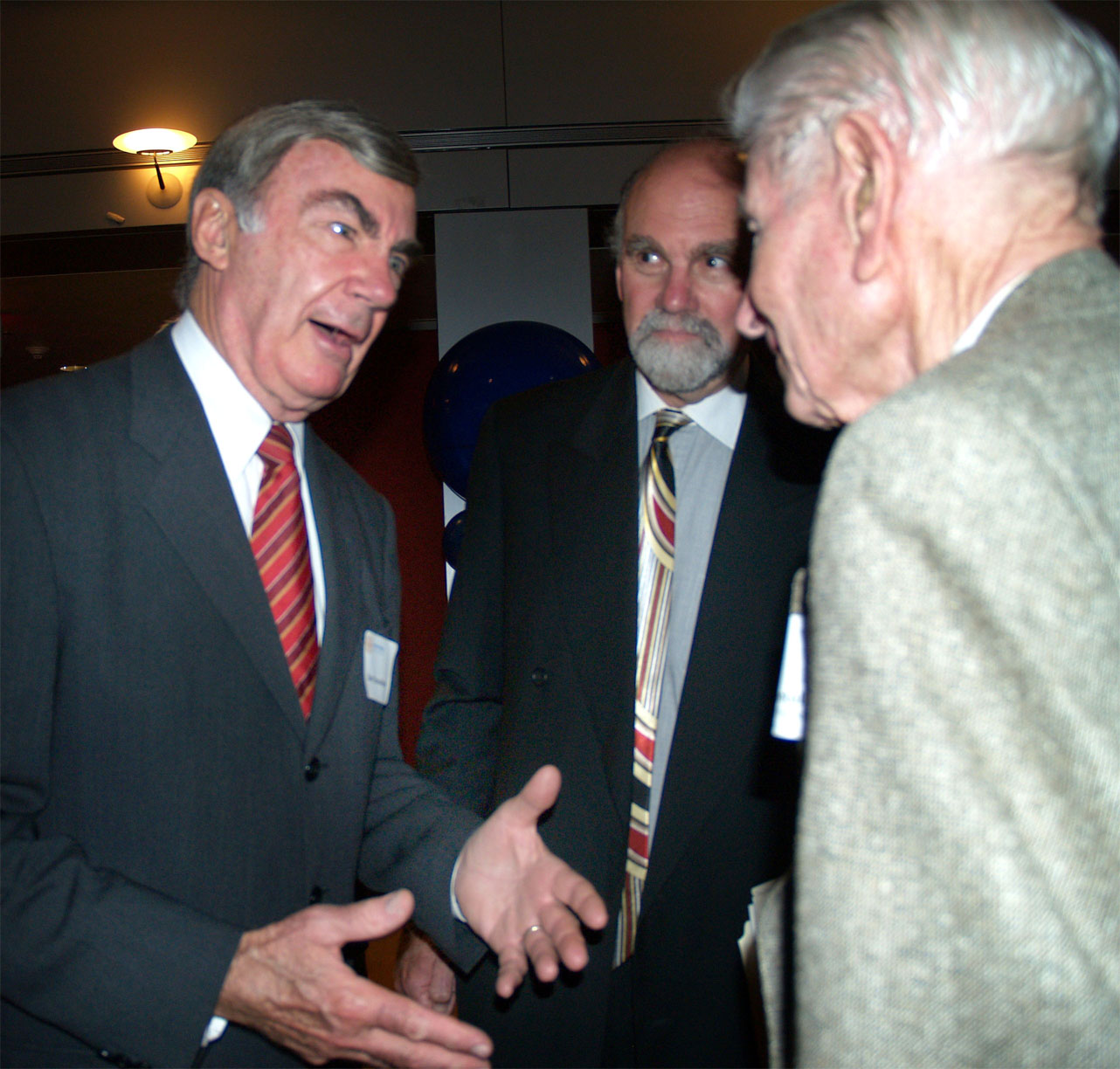 Image of former news anchor to the ABC news and reporter Sam Donaldson conversing with people